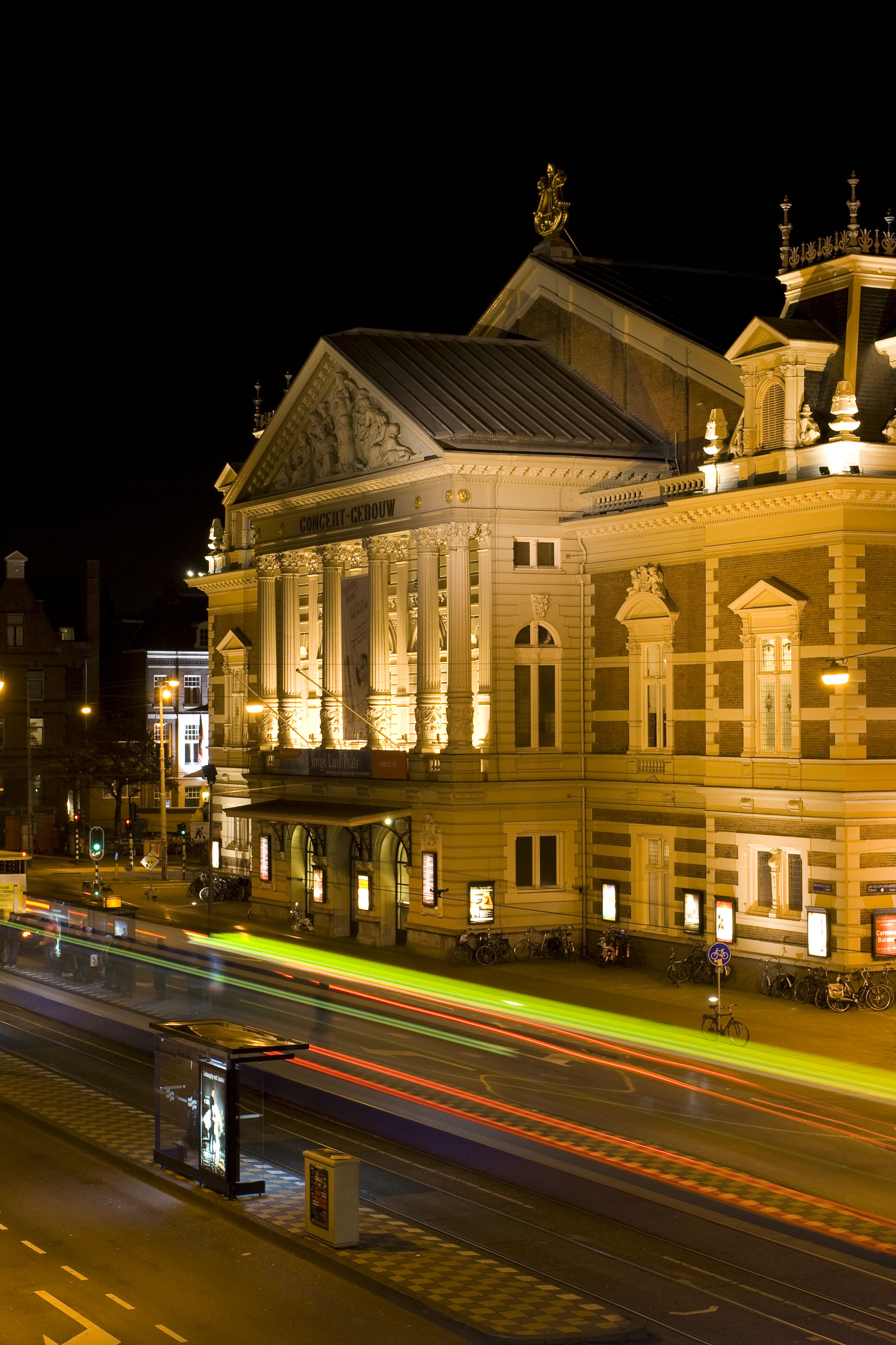 The facade of the world famous Concertgebouw in Amsterdam, The Netherlands at night.